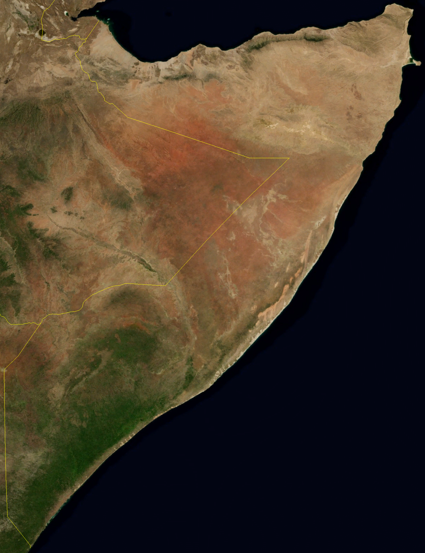 Satellite image of Somalia in November 2004. Blue Marble Next-Generation image.